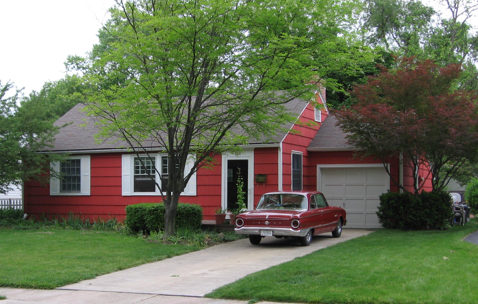 Photograph by George C. Campbell May 24, 2006